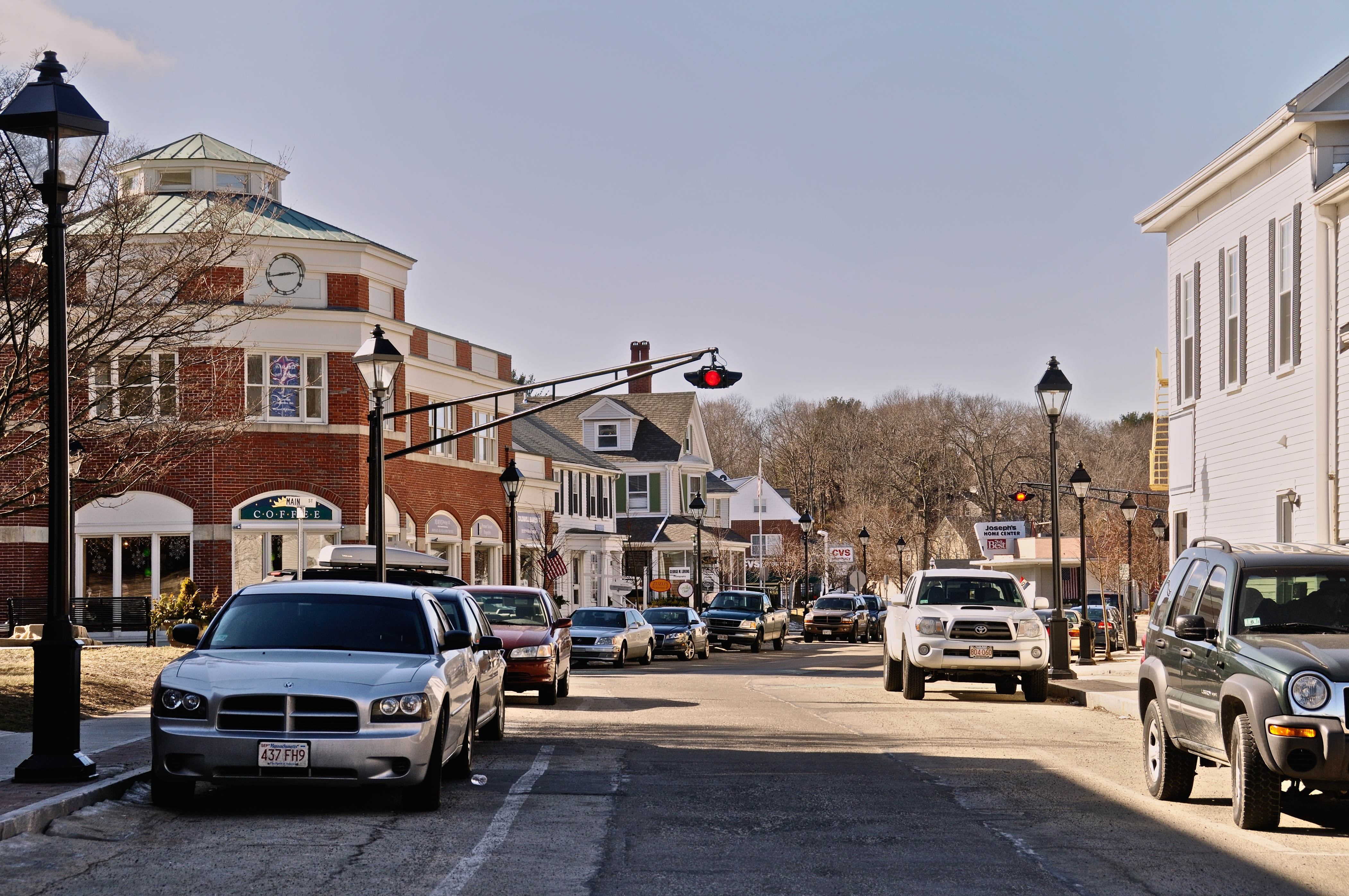 South Street, Hingham, Massachusetts